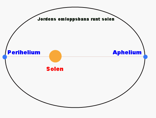 Description in swedish of earths orbit with Perihelion and aphelion put out.